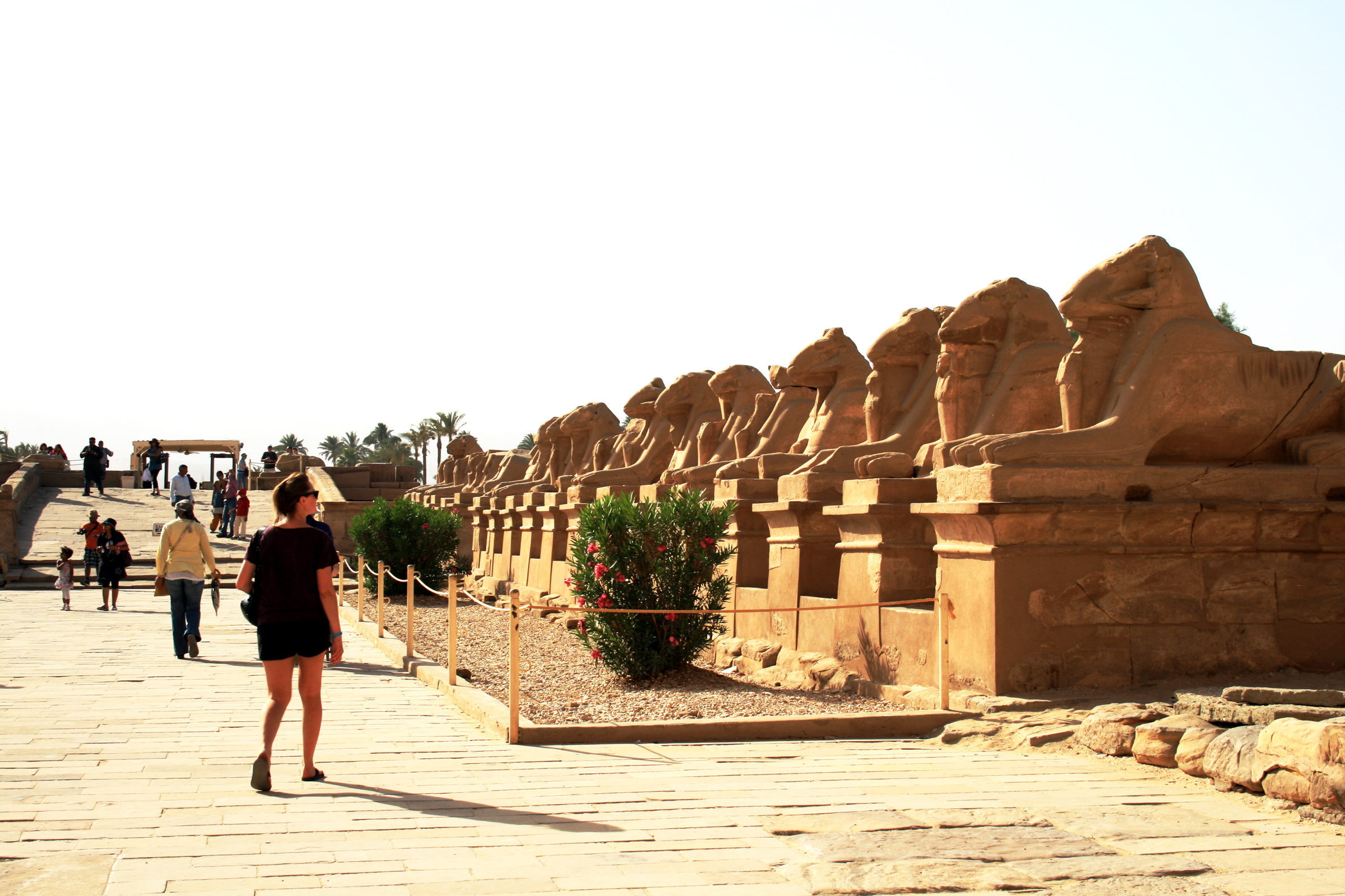 Wiev from entrance into Karnak temple complex near Luxor, Egypt